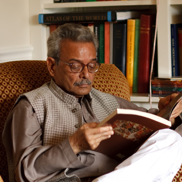 Mr. Shamsur Rahman Farooqi reading a book.